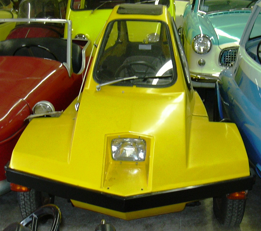 H-M Vehicles FreeWay, a microcar made in Burnesville, Minnesota, USA.